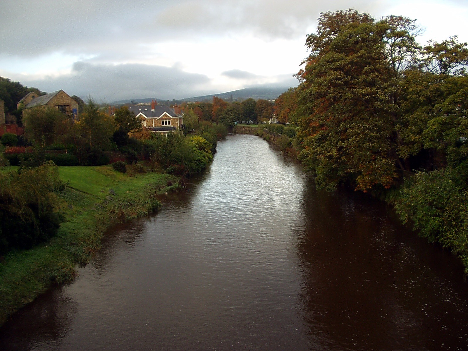 The River Dargle in the centre of Bray, County Wicklow its class